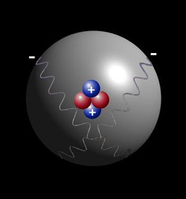 Model of the Schrödinger atom, showing the nucleus with two protons (blue) and two neutrons (red), orbited by two electrons (waves)